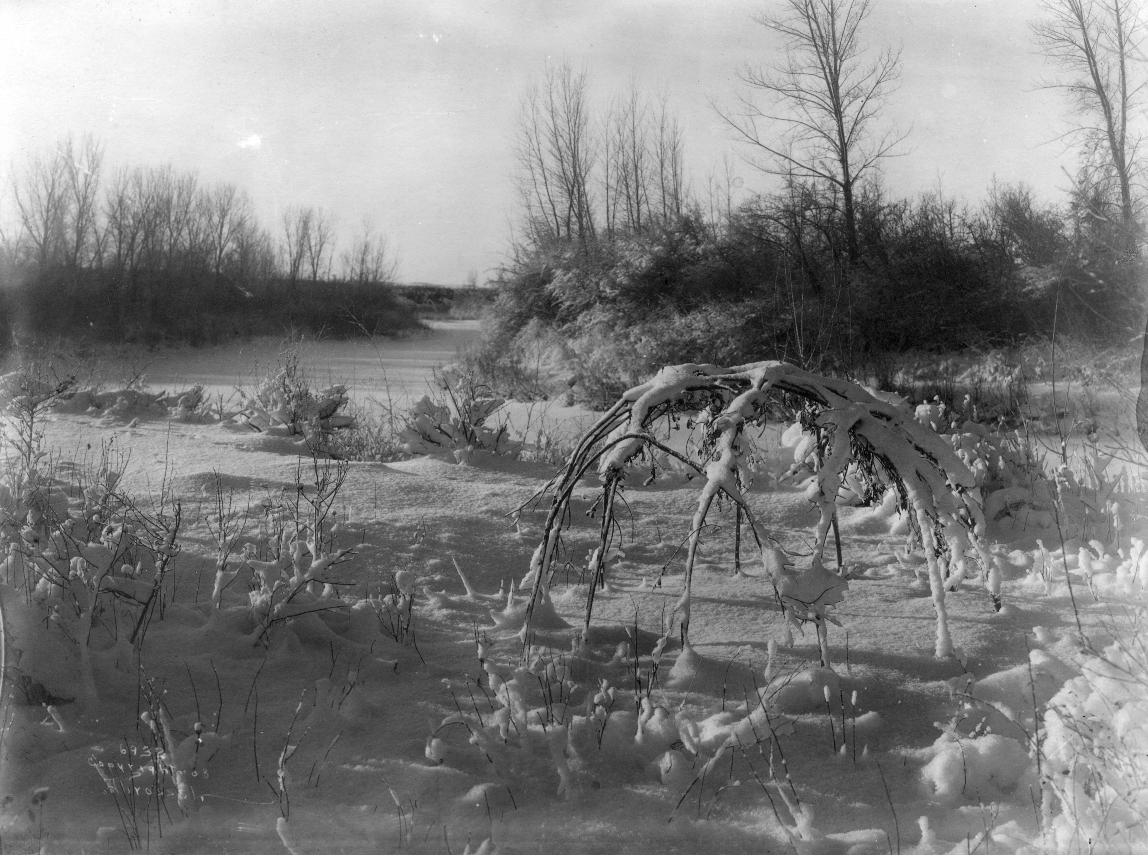 The wooden frame of a dome shaped wickiup, built by Native Americans (Crow), stands abandoned in snow on the bank of an iced over river.